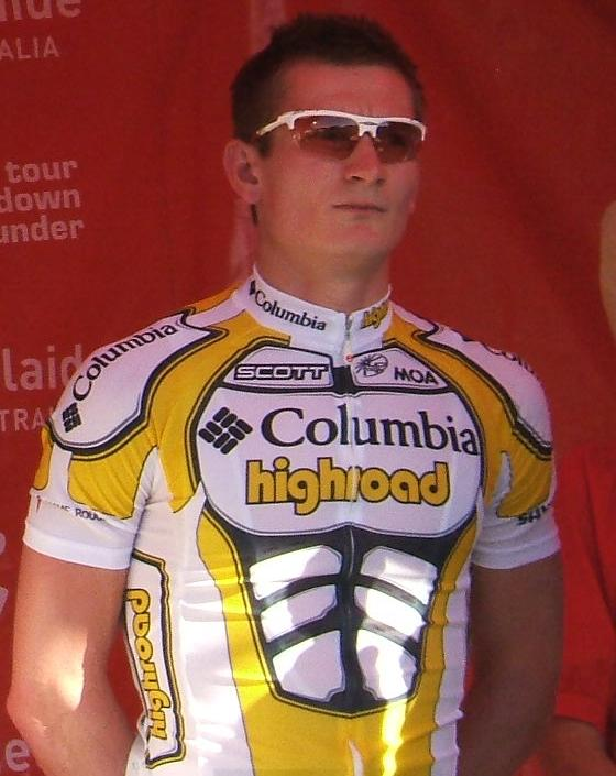 Named cyclist at the en:2009 Tour Down Under team presentation